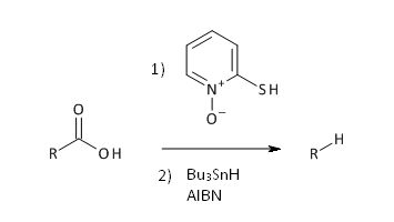 Barton-Motherwell reaction